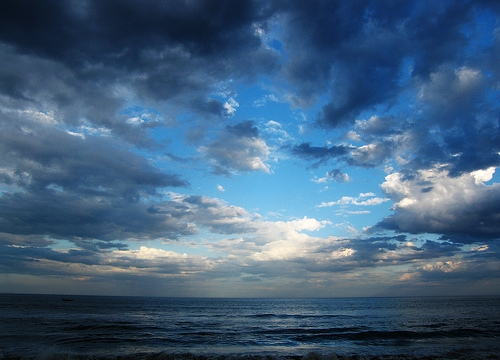 A sunset view from a beach in Tamil Nadu, India of monsoon clouds over the Bay of Bengal.Sunset over the eastern horizon